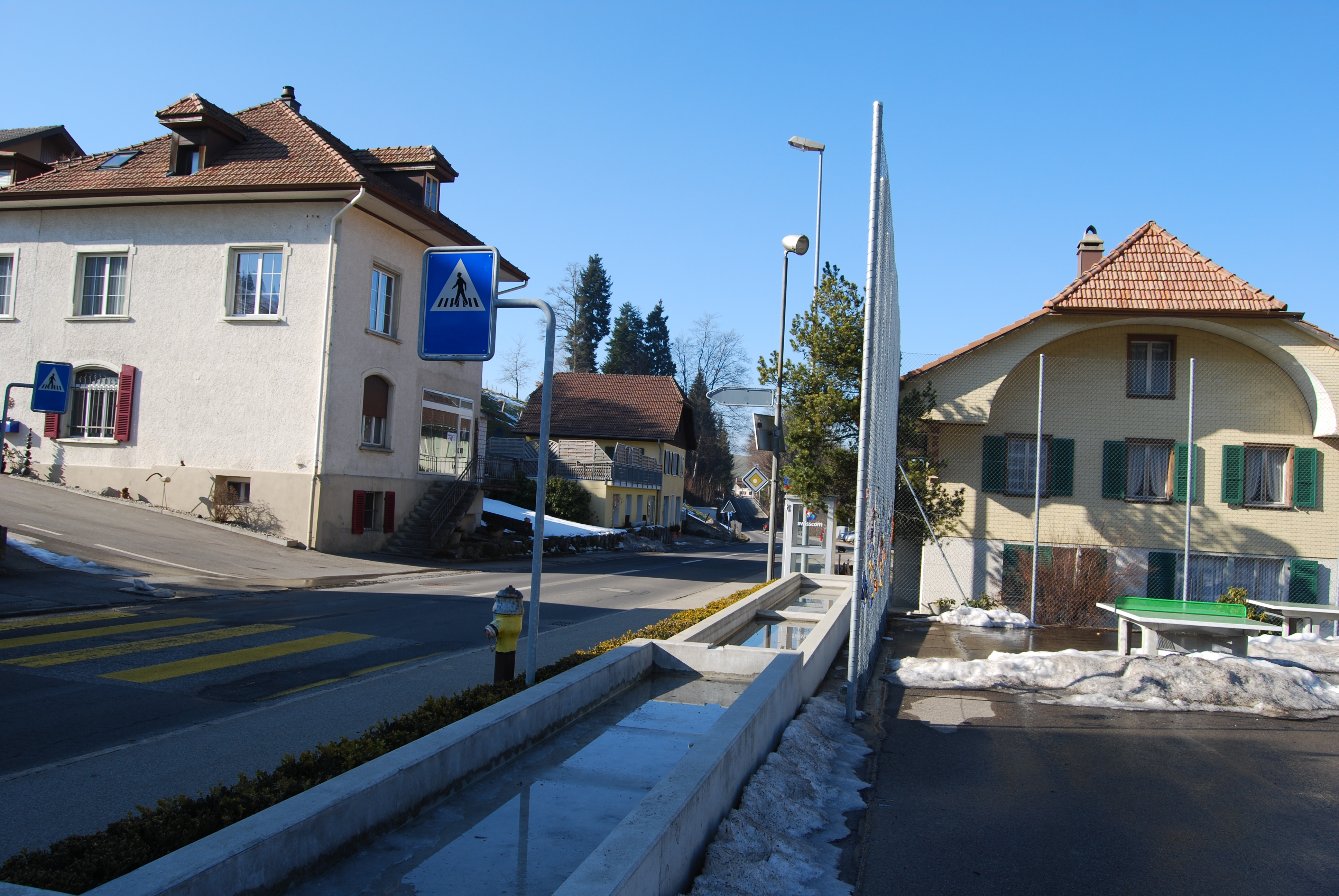 Wyssachen, canton of Bern, SwitzerlandEsperanto: Wyssachen, Kantono Berno, Svislando